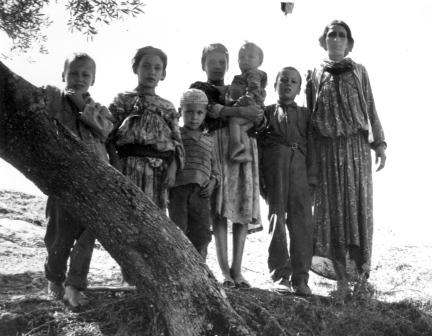 Caption: 1963. This Kabyle family is from Les Ouadlinas, Algeria, an old Methodist mission station. They are not Christians but are neighbors to missionaries. Citation: Mennonite Board of Missions. Photographs. Algeria Pax, 1955-1963. IV-10-7.2 Box 1 folder 27, photo #111. Mennonite Church USA Archives - Goshen. Goshen, Indiana.